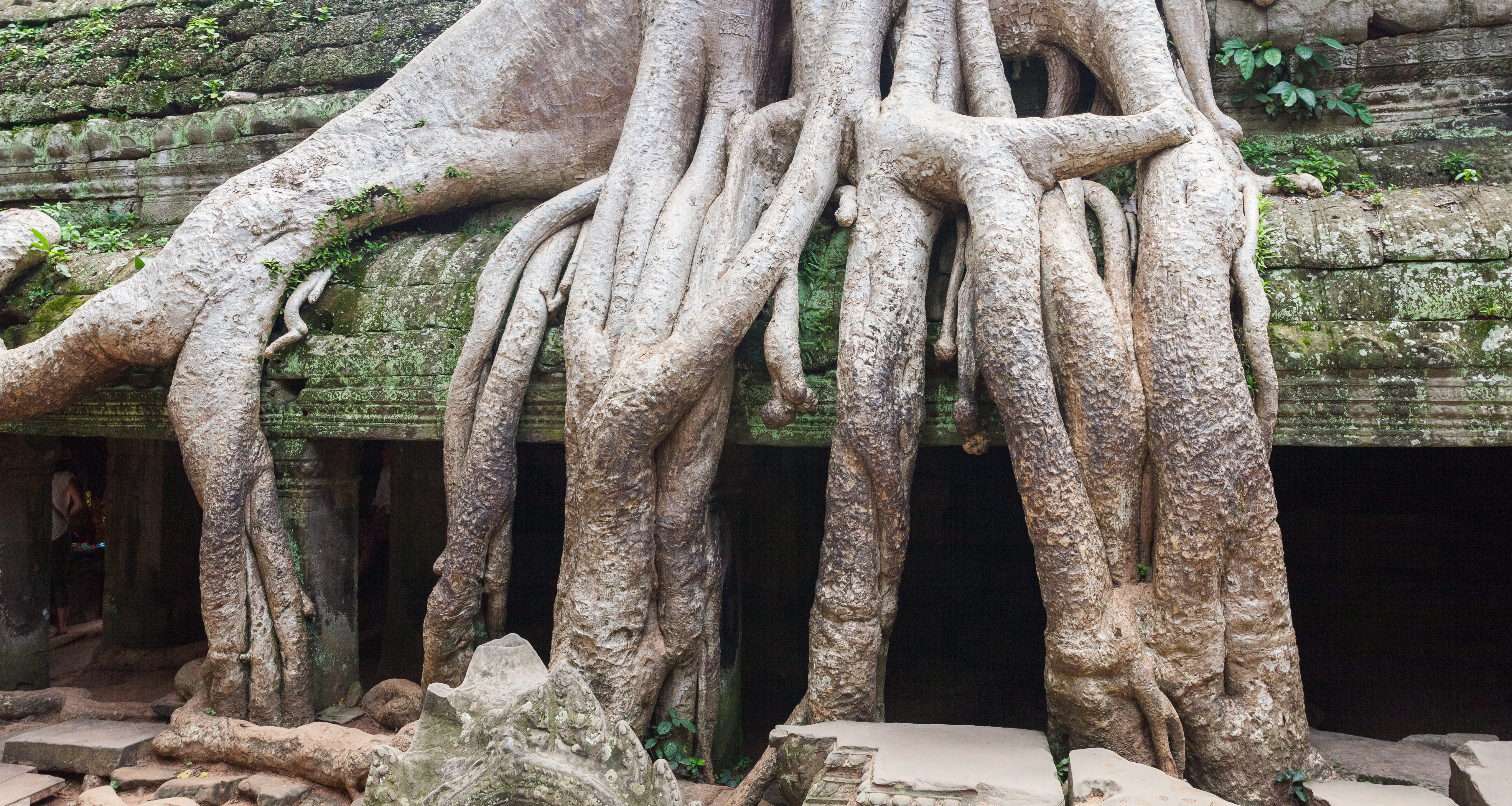 Ta Phrom, Angkor, Cambodia